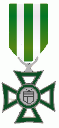 Cross of the Rotterdam civil guard 1940